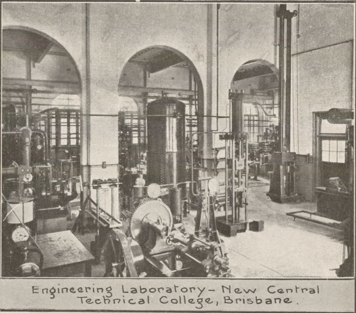 Brisbane Central Technical College - Engineering (H block), 1915